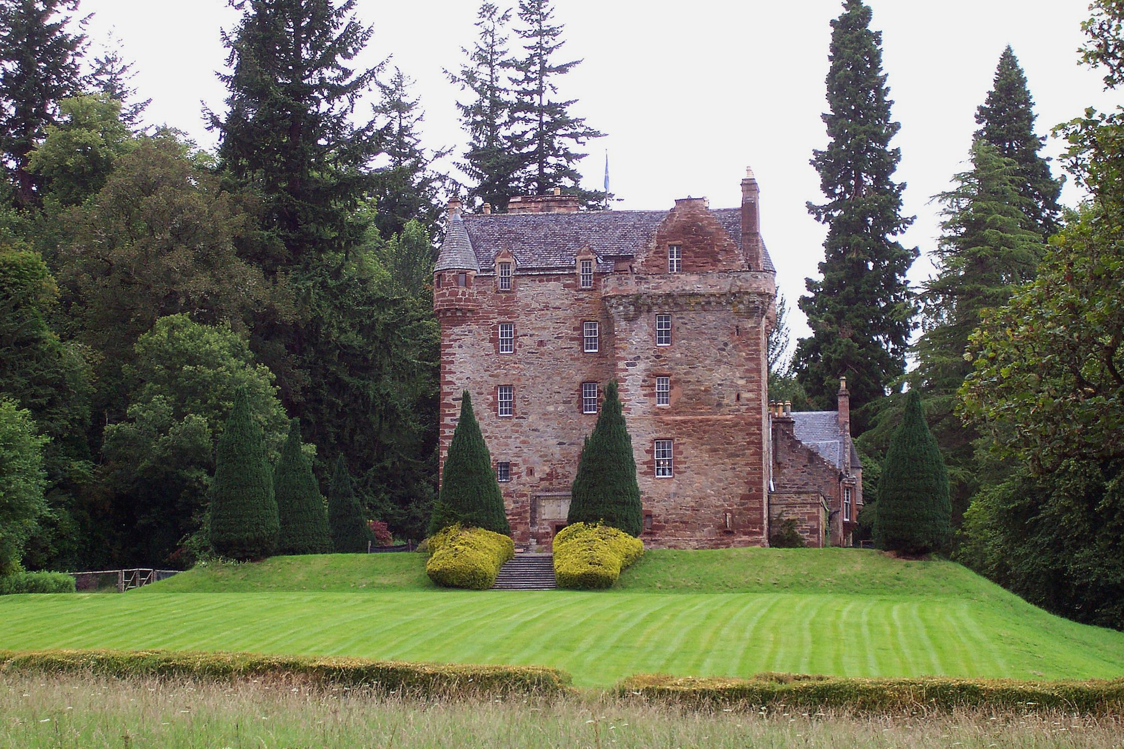 Castle Leod, just outside the spa town of Strathpeffer, is the home of the Mackenzie family, Earls of Cromartie and Chiefs of the Name and Arms of Mackenzie. The oldest part of the castle, the tower house, was built on the site of a Pictish fort during the 12th century; however, most of what remains dates from its rebuilding during the 17th century. In the 19th century, two extra wings were built. The grounds surrounding the castle contain some ancient trees of note.